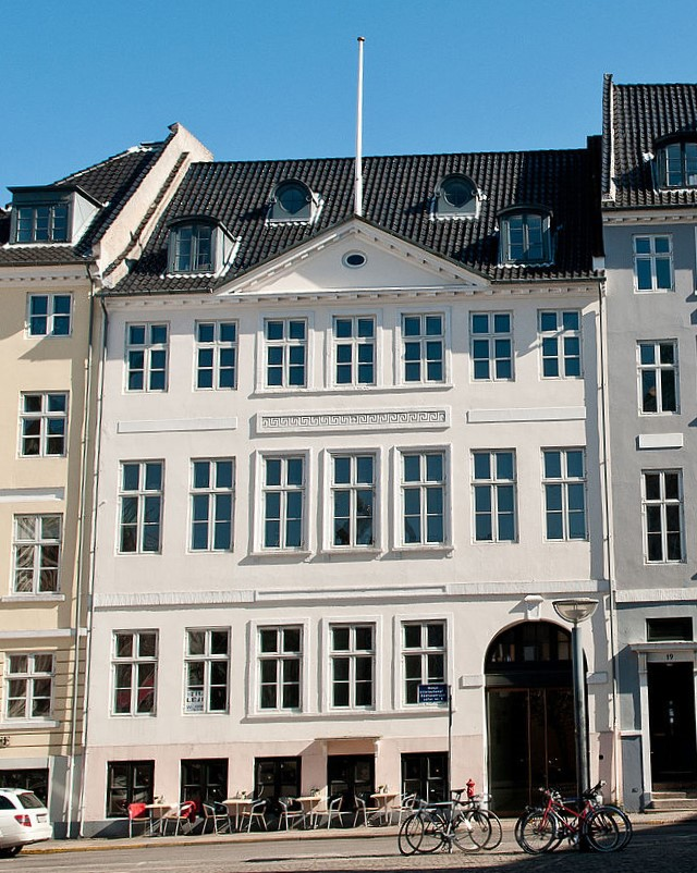 The south-east side of Nytorv in Copenhagen, Denmark